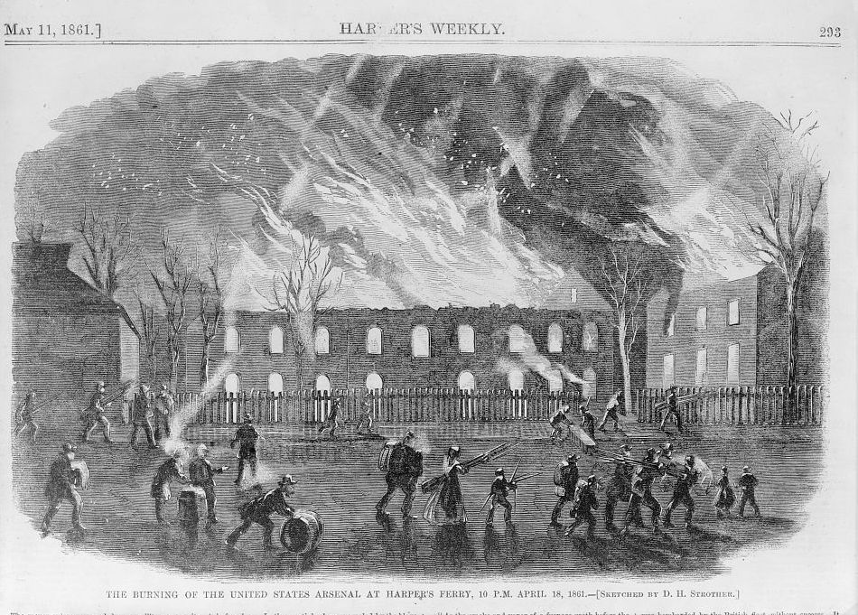 Title: The burning of the United States arsenal at Harper's Ferry, 10 P.M. April 18, 1861 / sketched by D.H. Strother. Abstract/medium: 1 print : wood engraving.